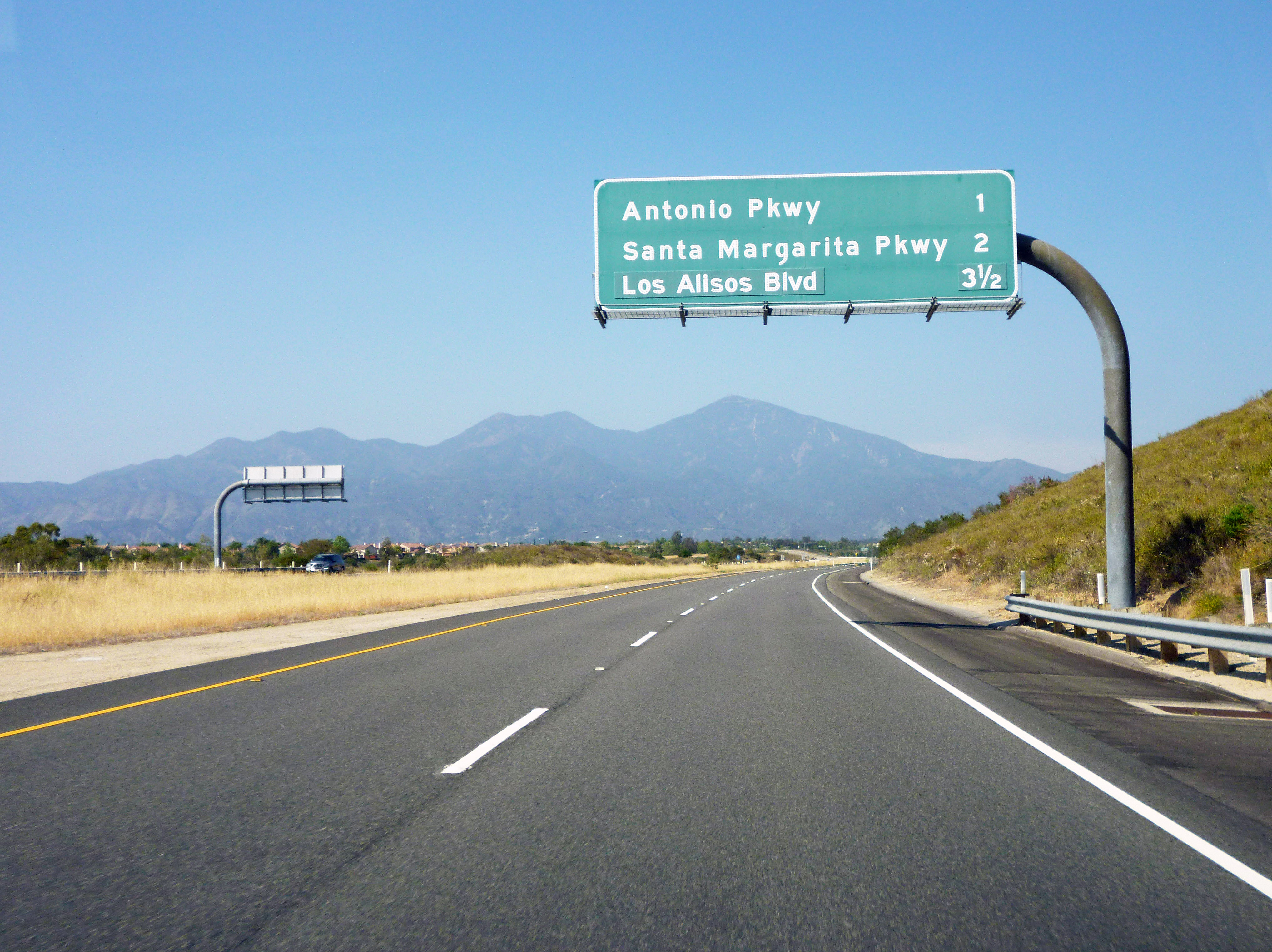 California State Route 241 northbound approaching Antonio Parkway, in Rancho Santa Margarita, California. Photographed by user Coolcaesar on May 25, 2014.